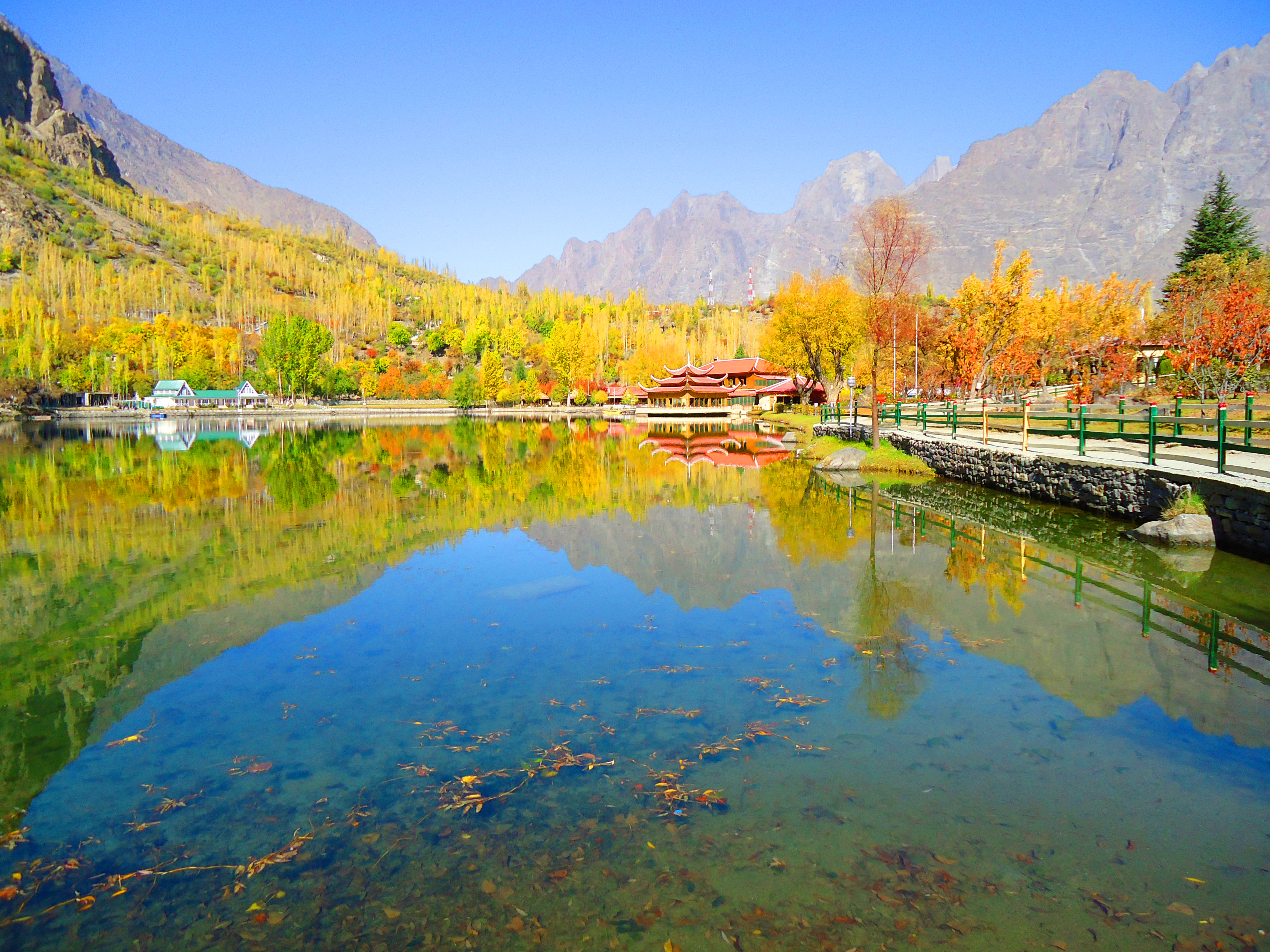 Shangrila , Skardu